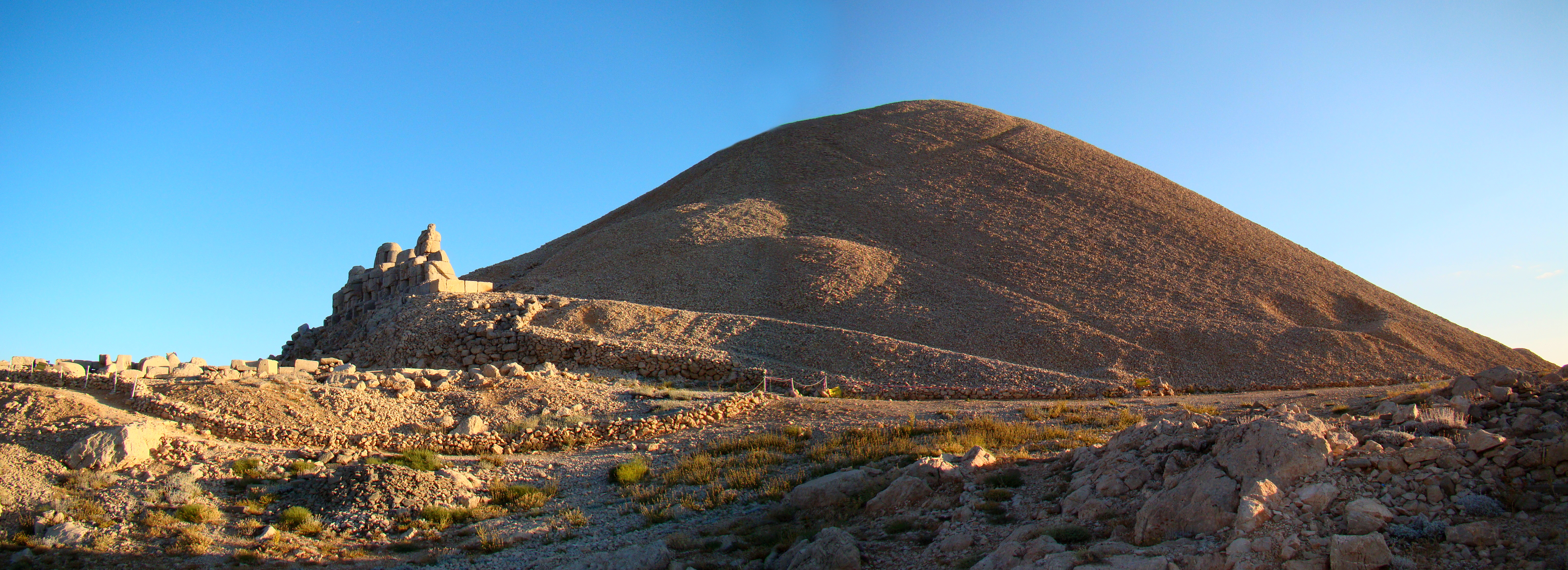 The artificial, man-made peak of Mount Nemrut (Turkish: "Nemrut Dağı"). The photo was taken shortly before sunset. On the left side of the photo you see the east-facing row of statues. Their heads have been removed and are placed in a row in front of the bodies. Along the side of the pile of stones, which is assumed to be a tomb, there are various decorated stone stelae. On the right side of the pile (opposite to the statues you can see) there's another set of similar statues, also destroyed, facing the west.